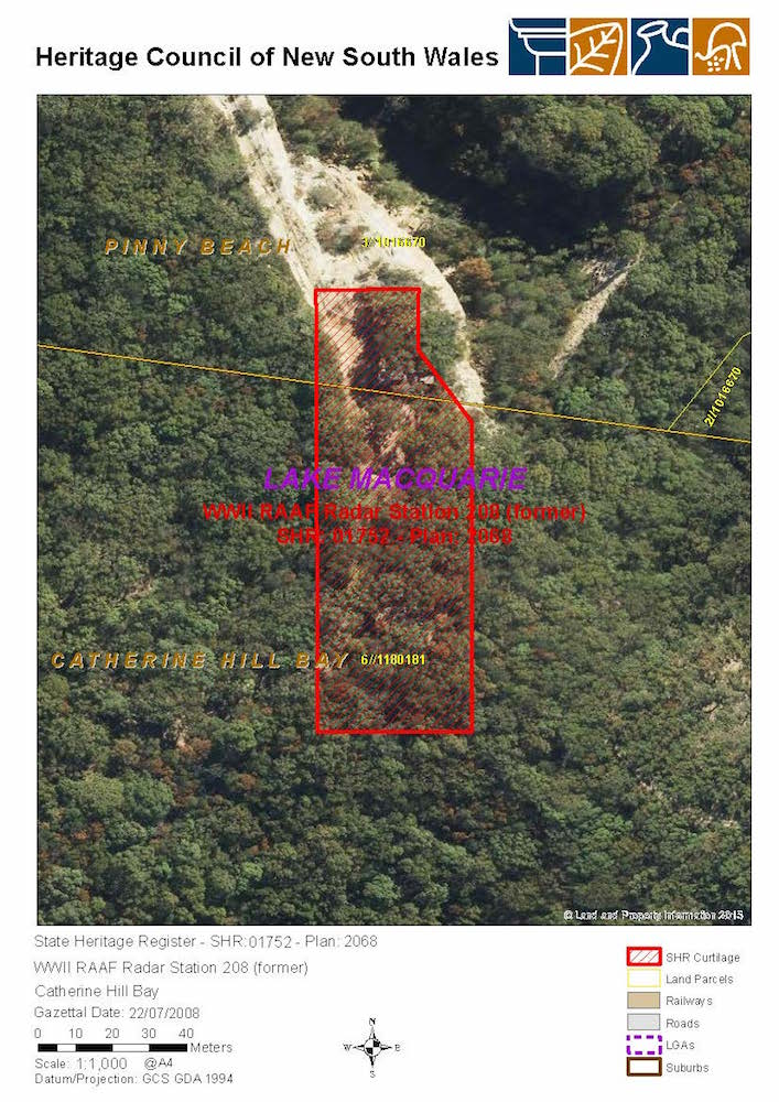 No. 208 Radar Station RAAF: SHR Plan 2068